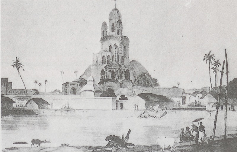 T & W Daniell - Gobindaram Mitter's Nabaratna Temple (1788)